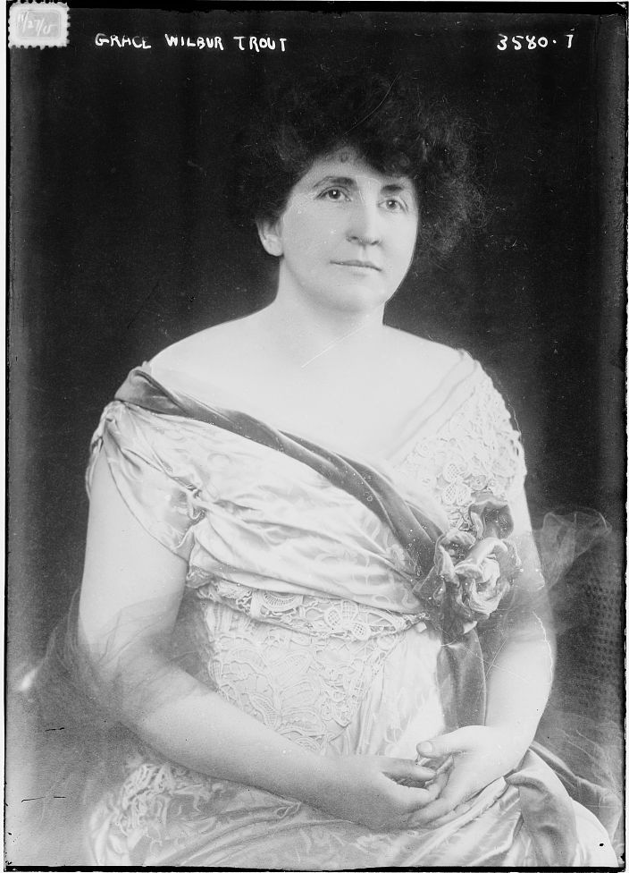 Portrait of Grace Wilbur Trout (Bain News Service).